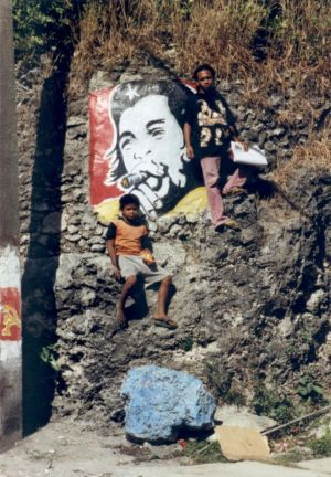 Wall painting of Ché Guevara in Baucau/Timor-Leste 23nd June 2002